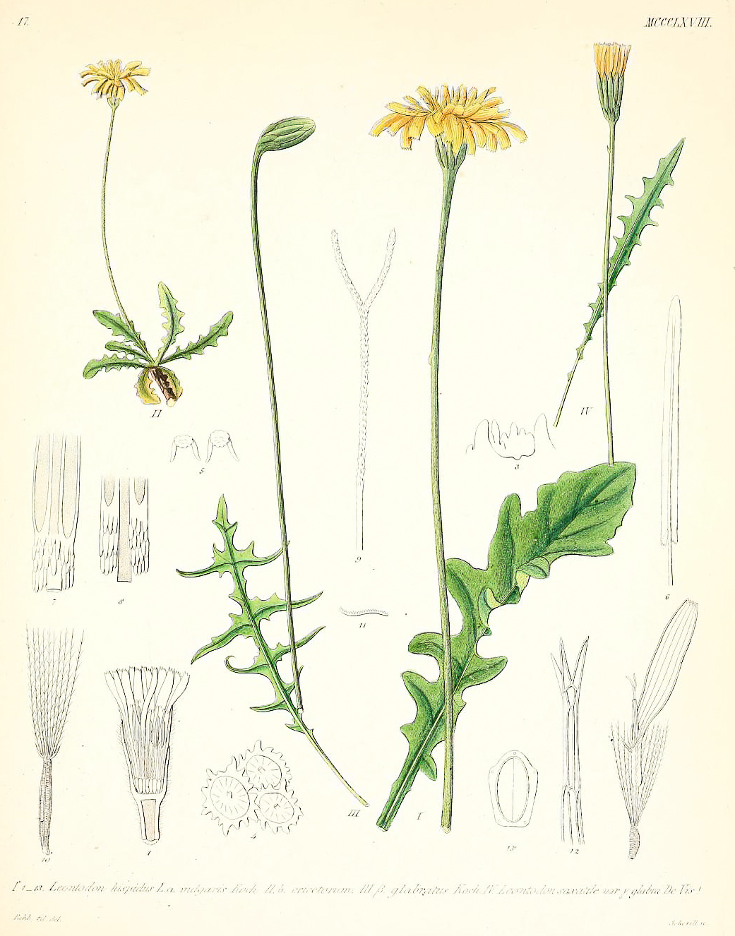 Leontodon hispidus Reichenbach Icones florae Germanicae Iconographie 1858-1860